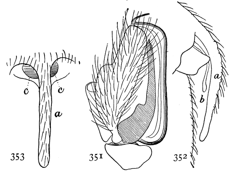 Linyphia concolor.—351, end of palpus of male. 352, side of epigynum. 353, epigynum from below.